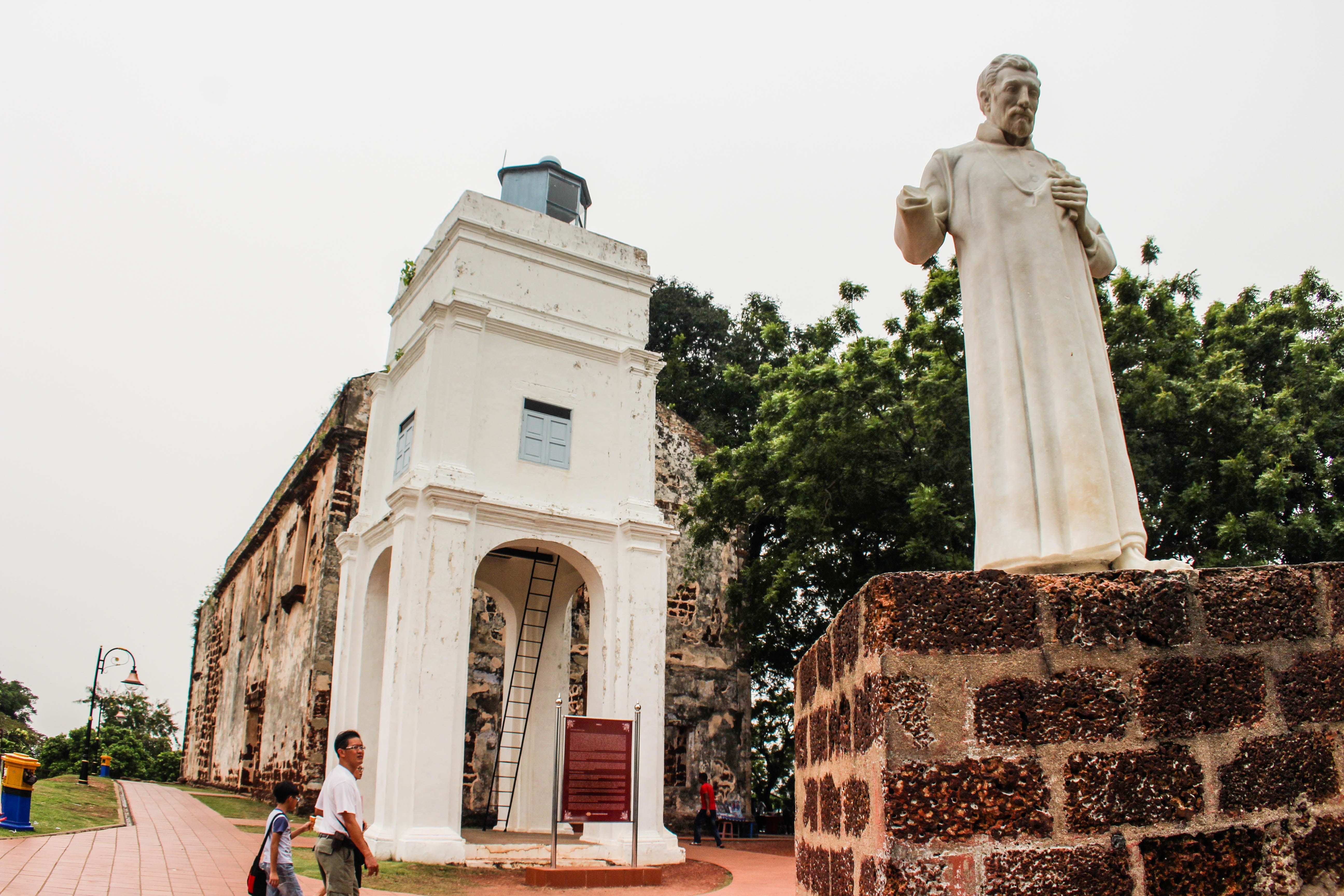 Closer view of Francis Xavier Status at St Paul Church, Malacca, Malaysia